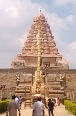 Gangaikondcholapuram கங்கைகொண்டசோழபுரம்